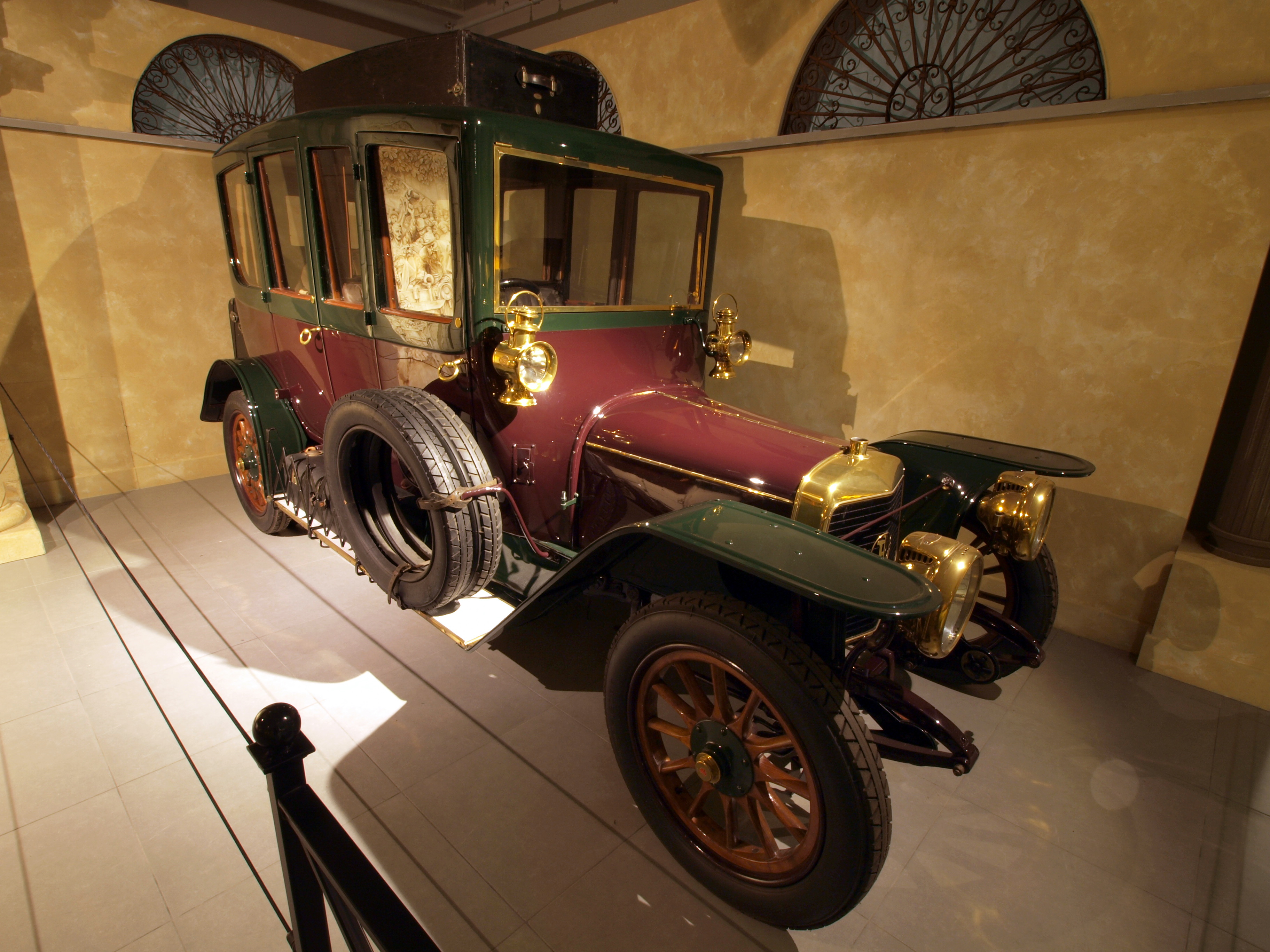 Photographed at the Louwman museum / Louwman Collection, The Netherlands.